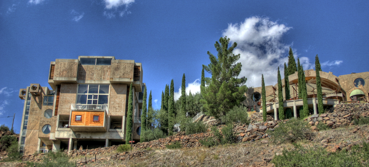 Arcosanti planned town